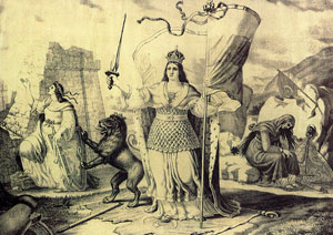 Separated Bulgaria after the Treaty of Berlin - a lithography from Nikolay Pavlovich (1835-1894)